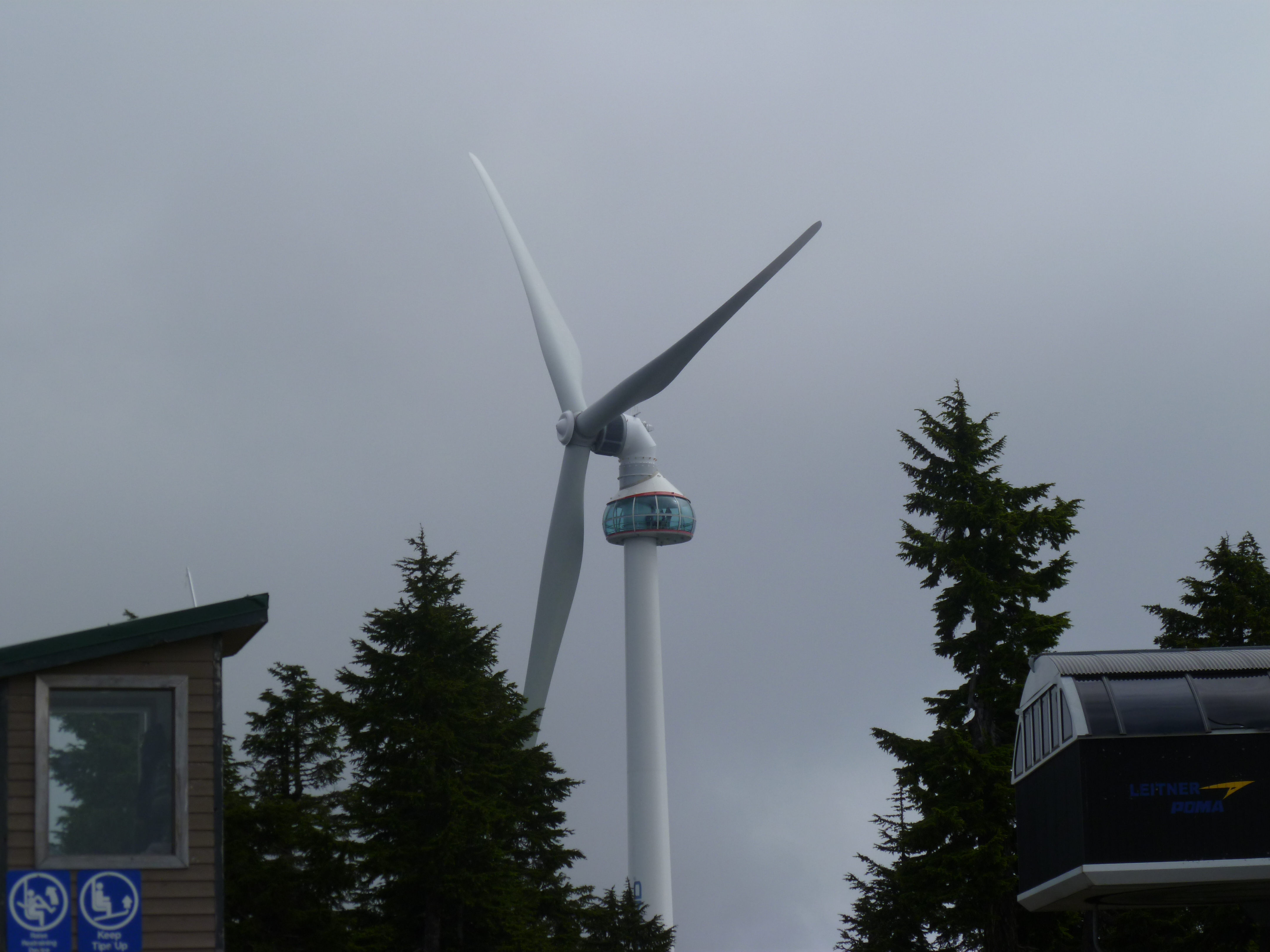 The turbine atop Grouse Mountain